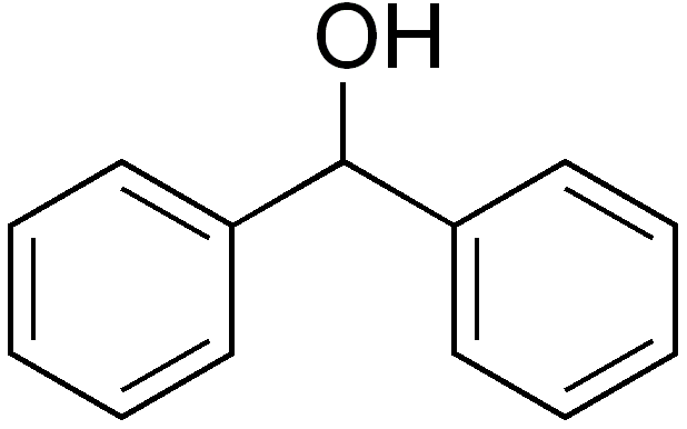 chemical structure of diphenylmethanol